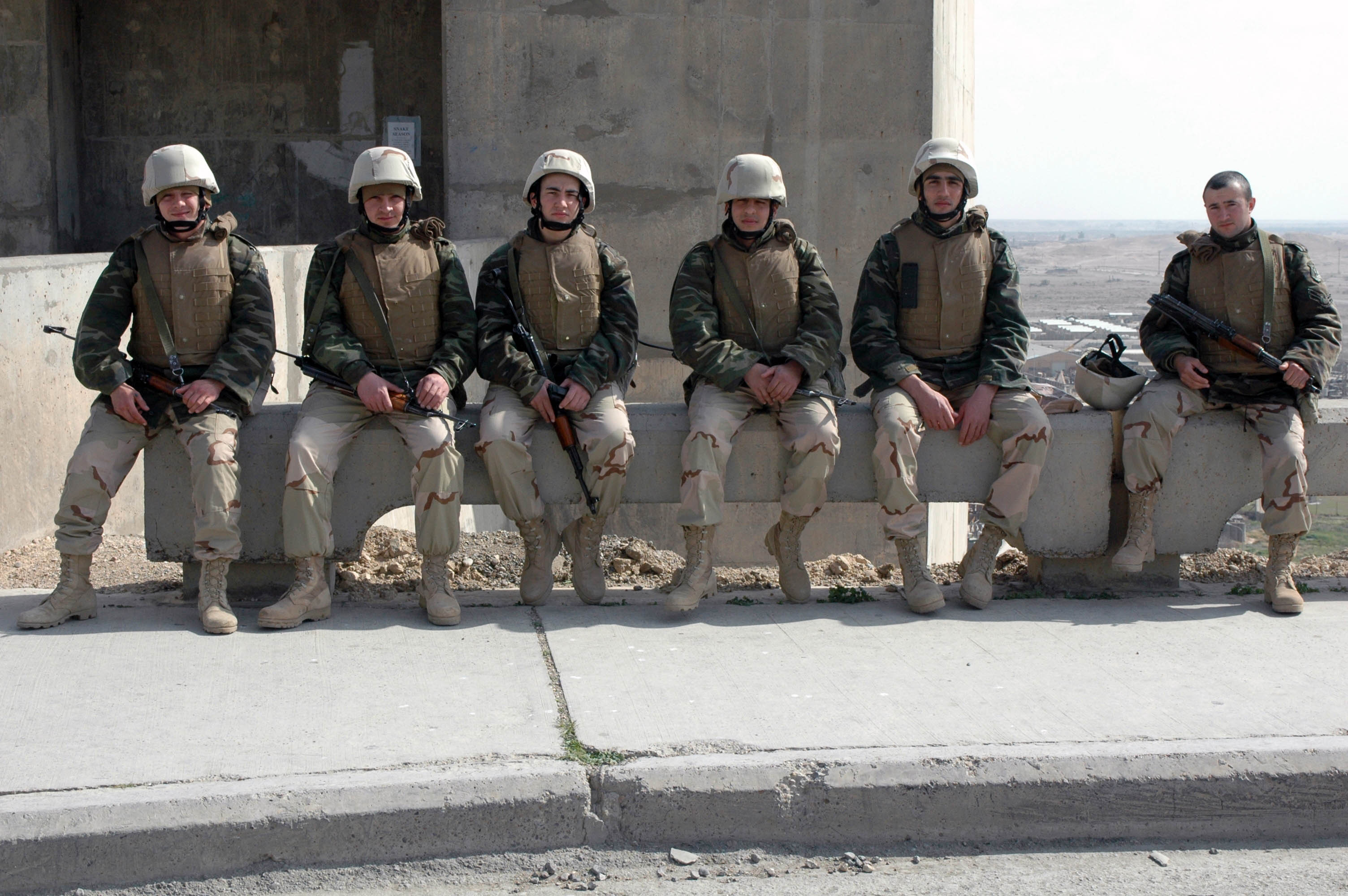 Azerbaijani soldiers take a break while pulling security at Haditha Dam, Feb. 27. The Azerbaijani army, which has served with Marines since about 2004, provides security for the dam, a large man-made lake located in Haditha, Iraq.